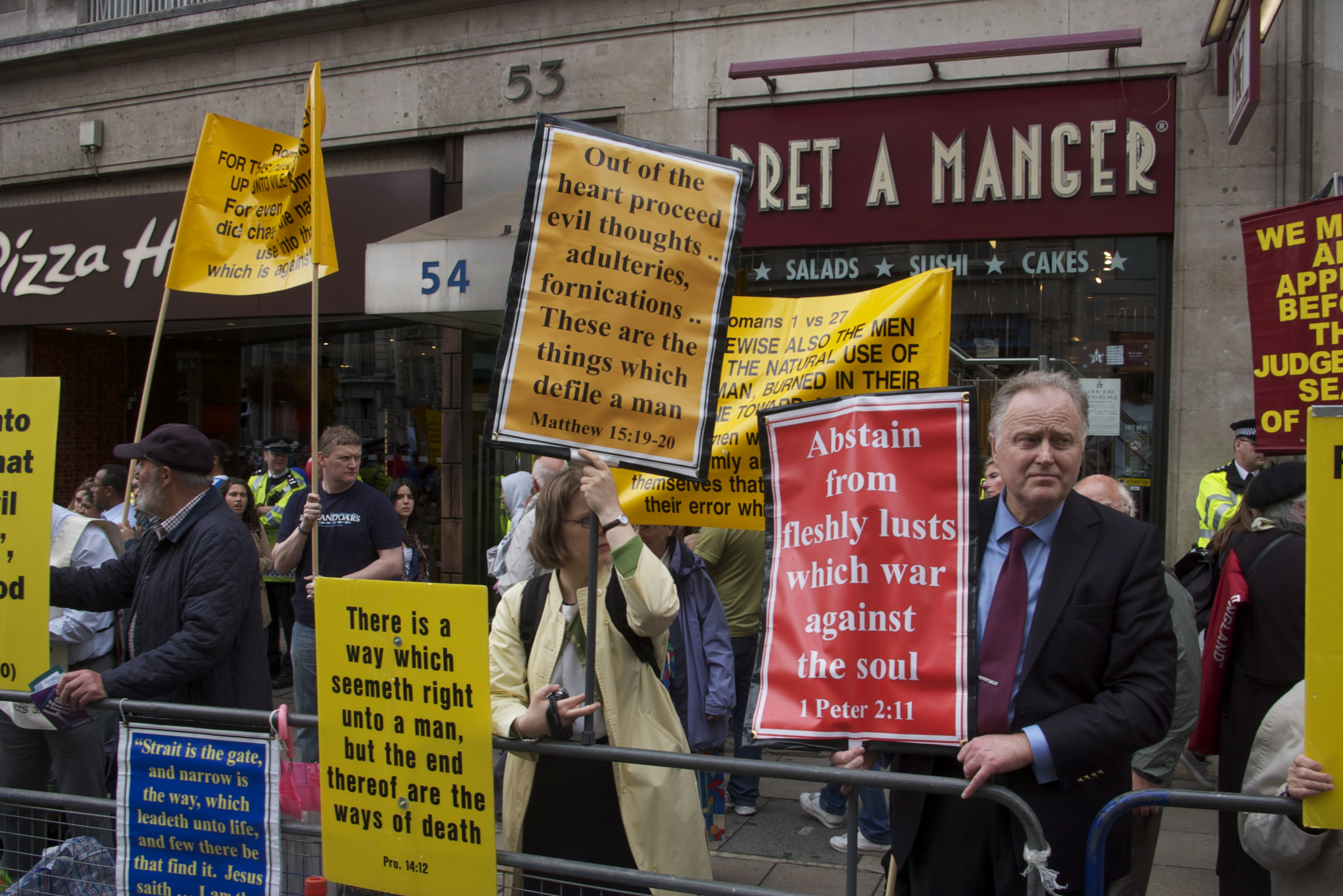 Anti-gay protesters at Pride London/WorldPride 2012.